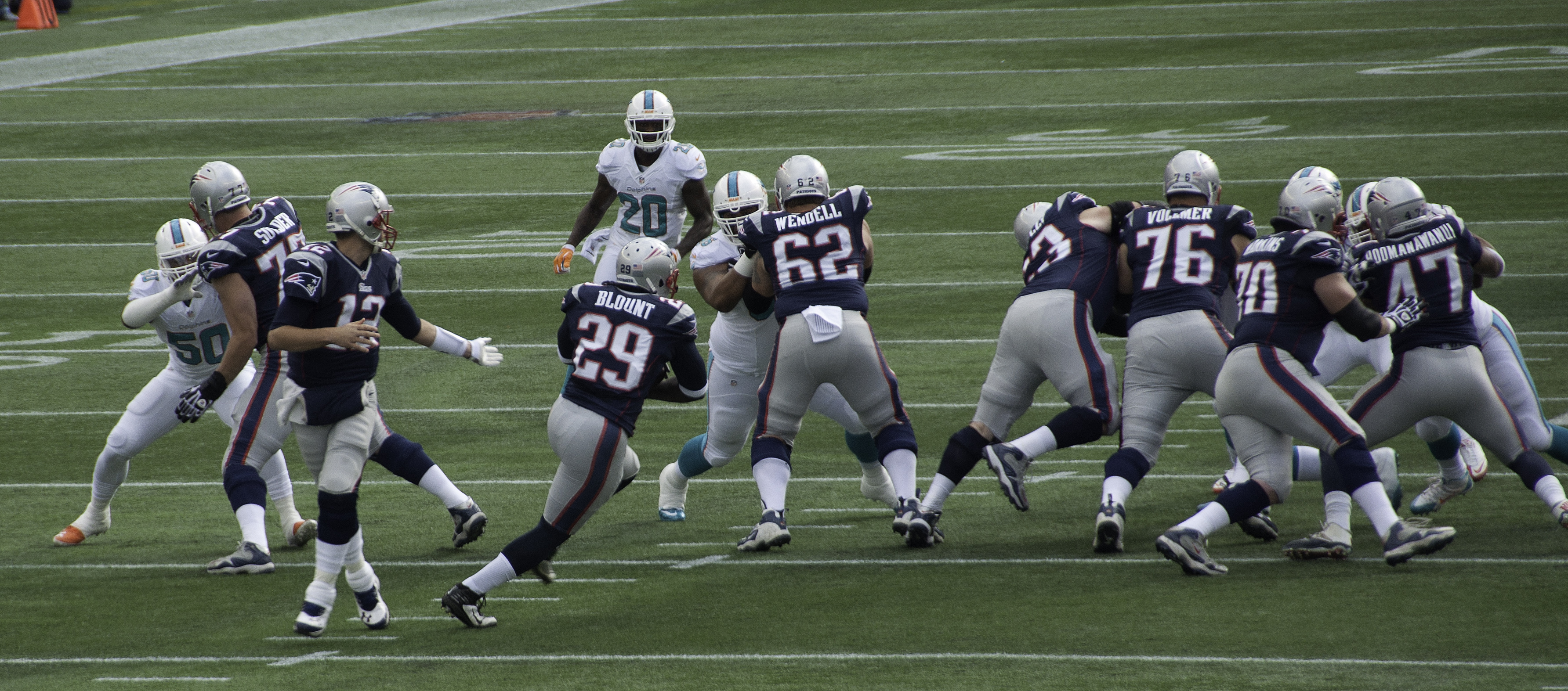 Patriots running back LeGarrette Blount receives handoff from Tom Brady against the Miami Dolphins.